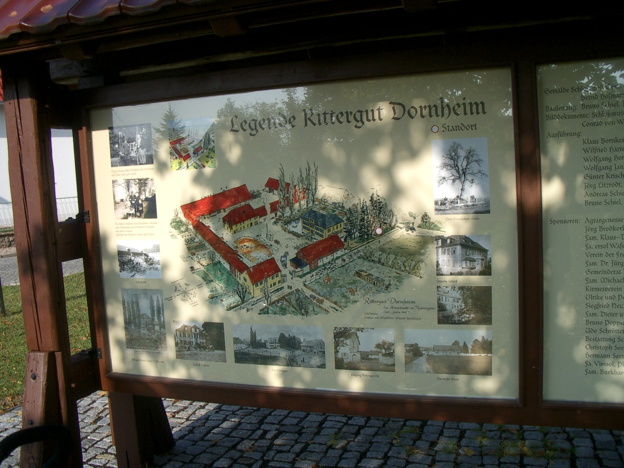 Information Desk in Dornheim (Thuringia)